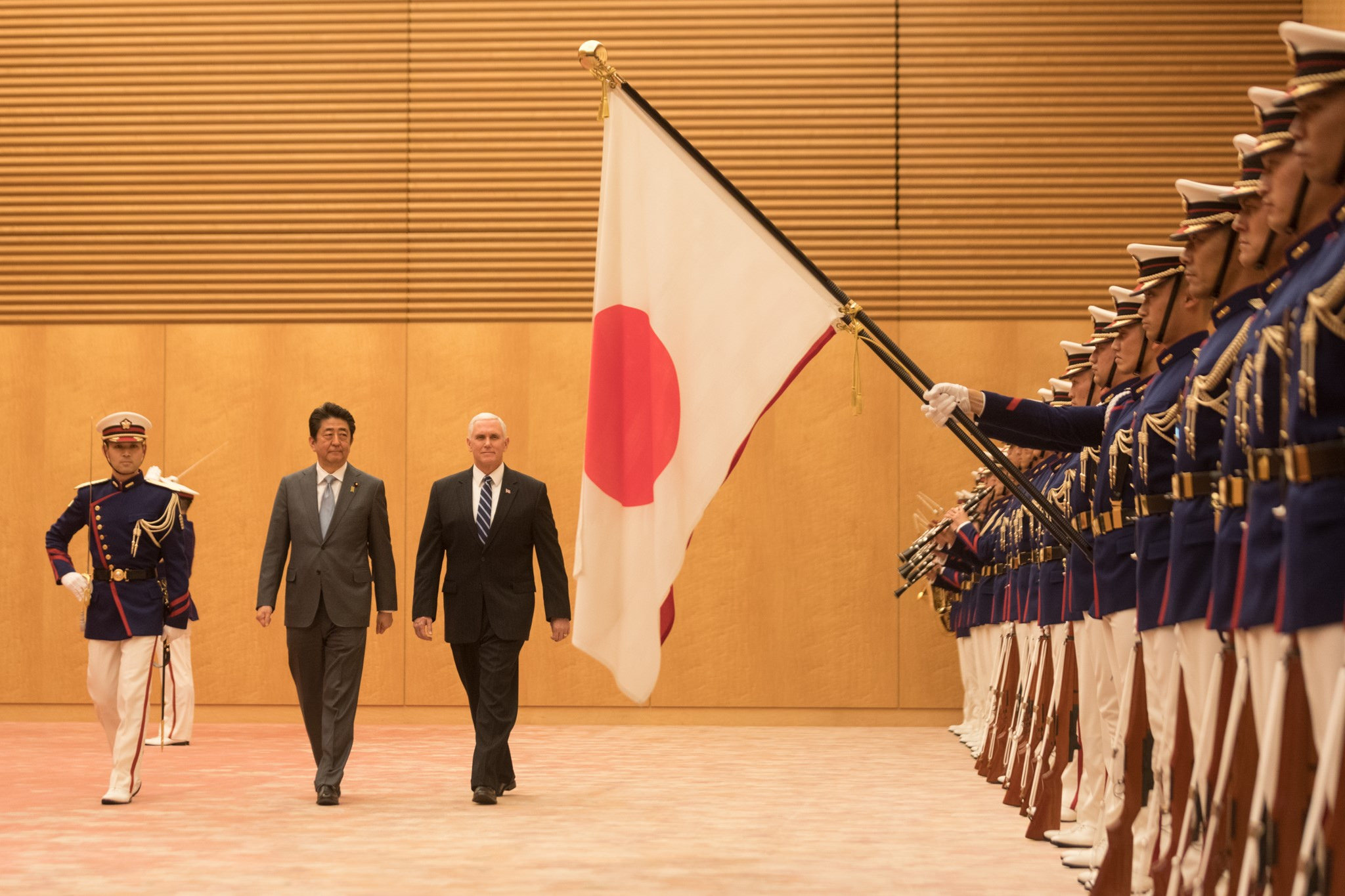 Vice President Mike Pence participates in an official arrival ceremony at the Kantei, Wednesday, February 7, 2018, in Tokyo, Japan. (Official White House Photo by D. Myles Cullen) 特別儀仗隊 [1]